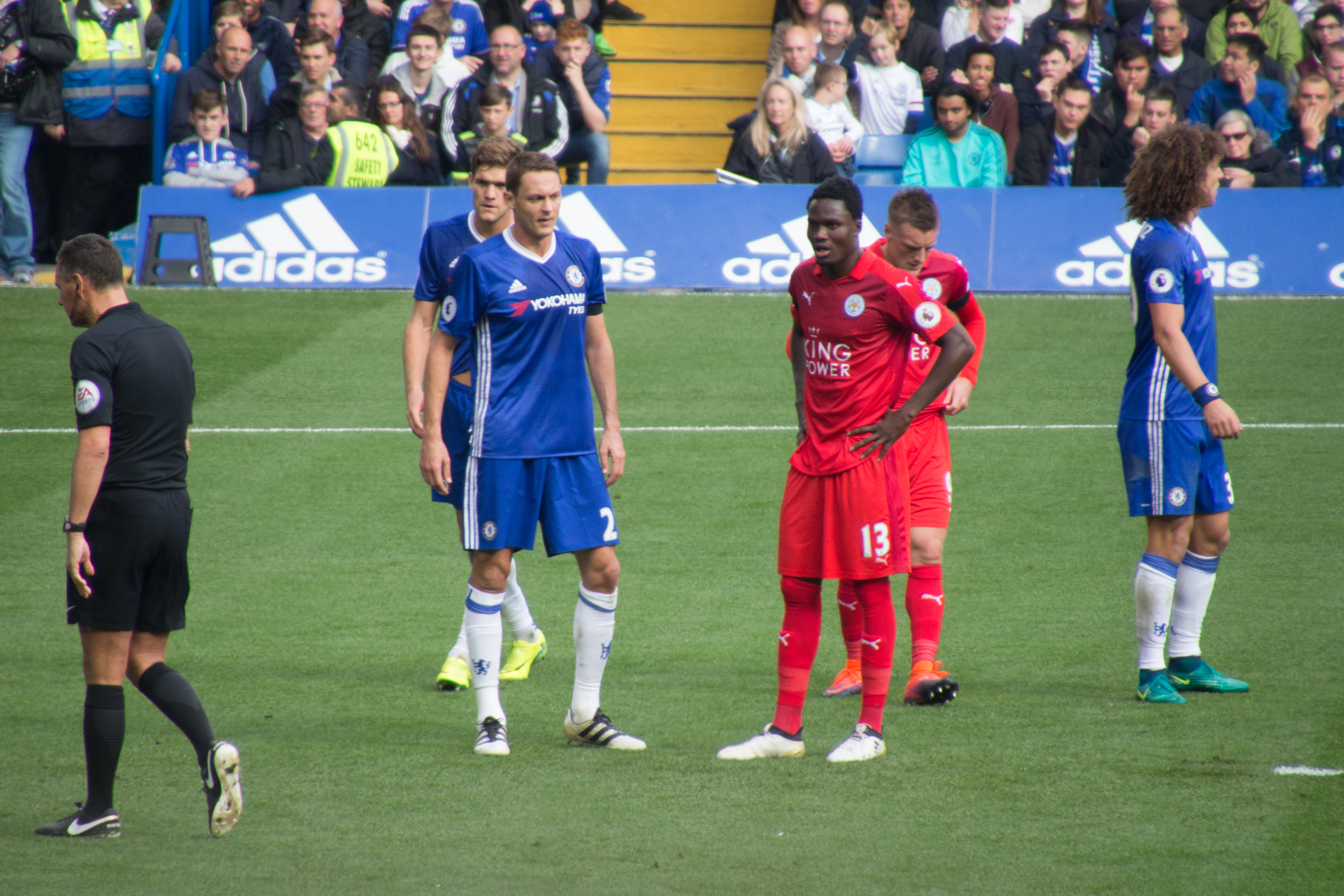 Chelsea 3 Leicester 0 15.10.16